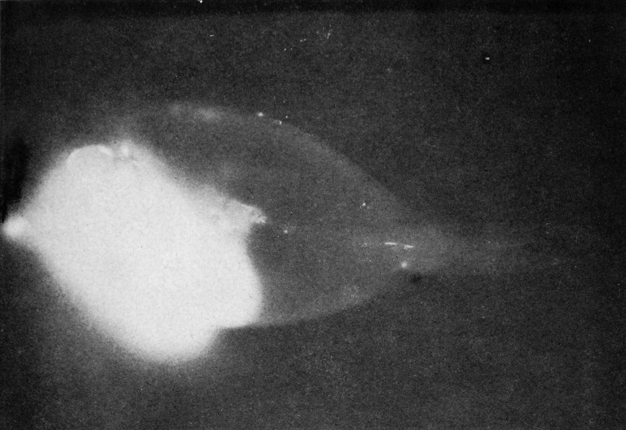 Contamination of Bikini Lagoon by the Baker shot of Operation Crossroads, Bikini Atoll, July 25, 1946. A radioactive puffy surgeon fish takes its own x-ray (fish was placed on photographic film overnight). Brightest area is the stomach filled with fresh algae. The rest of the body has absorbed and distributed enough fission product radioactivity to make the entire fish radioactive. The fish was alive and apparently healthy when caught.